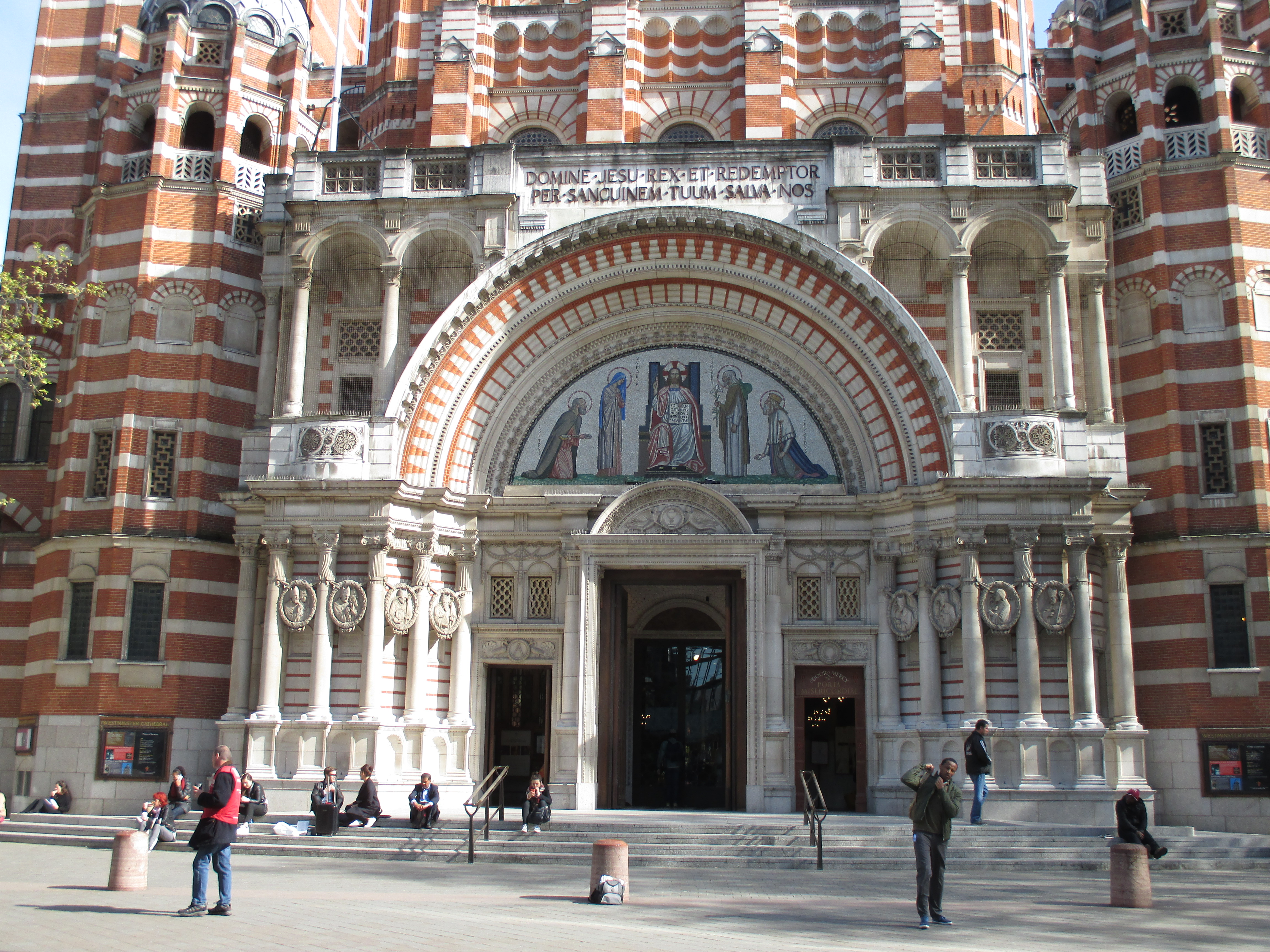 The north-west entrance of Westminster Cathedral